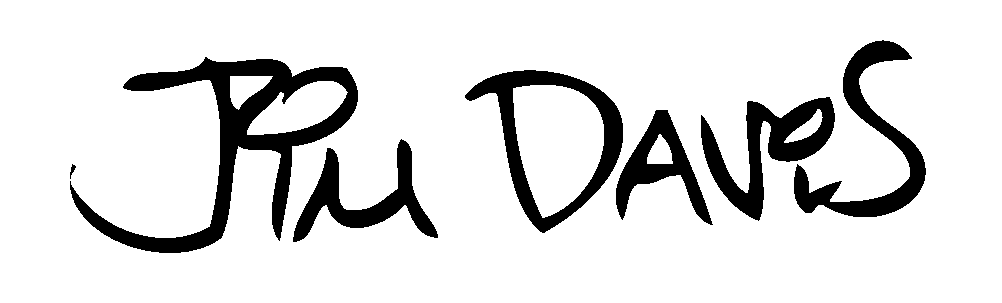 Autographed signature of Jim Davis I personally obtained in 2003 in person.